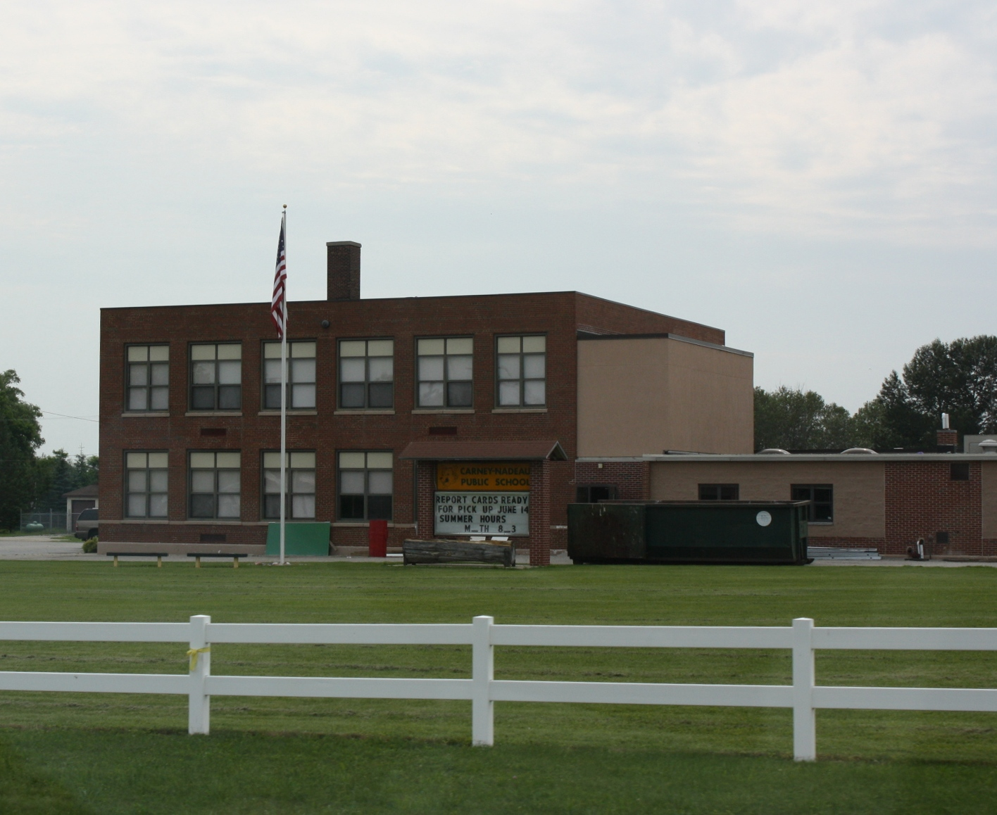 Looking west at the school for Carney, Michigan / Nadeau, Michigan on U.S. Route 41.